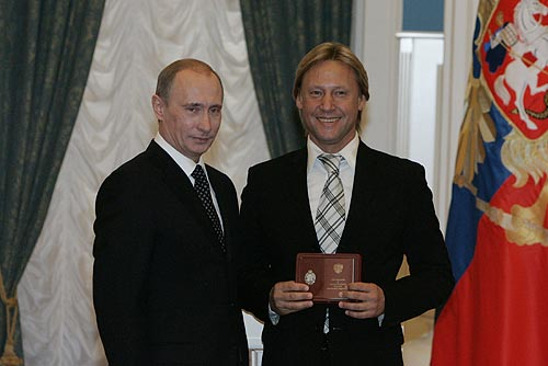 THE KREMLIN, MOSCOW. Ceremony for the presentation of state awards. Actor Dmitry Kharatyan receives the title People's Artist of Russia.